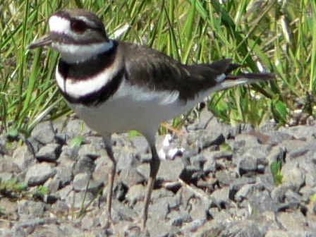 Killdeer, adult